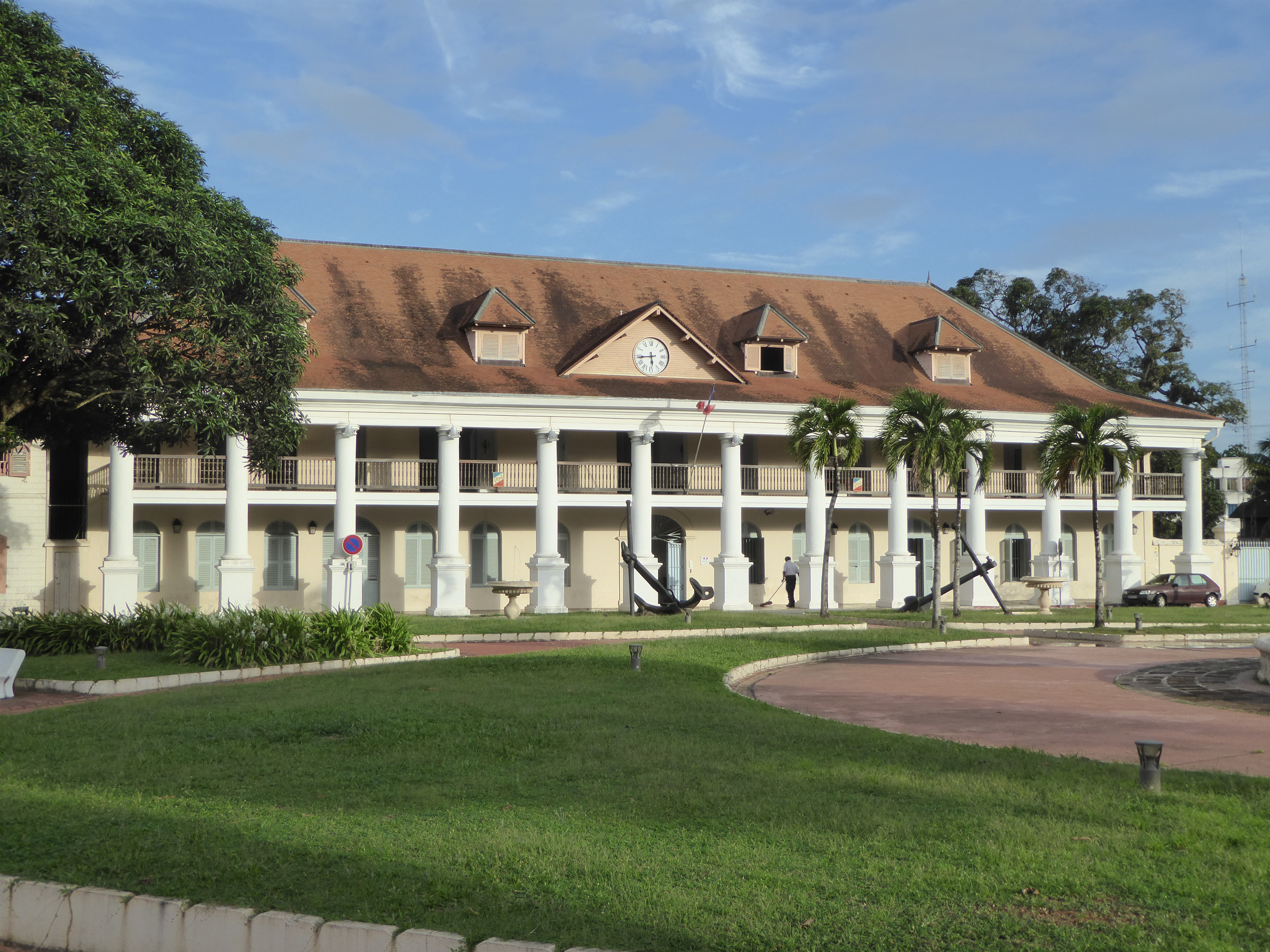 Former Government House in Cayenne, French Guiana, begun 1729. It was originally a Jesuit residence.